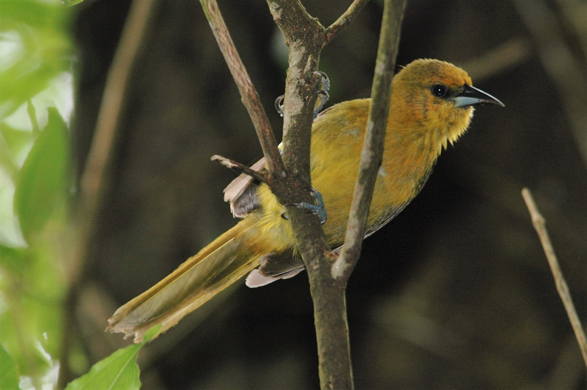 Montserrat Oriole Icterus oberi female in the wild